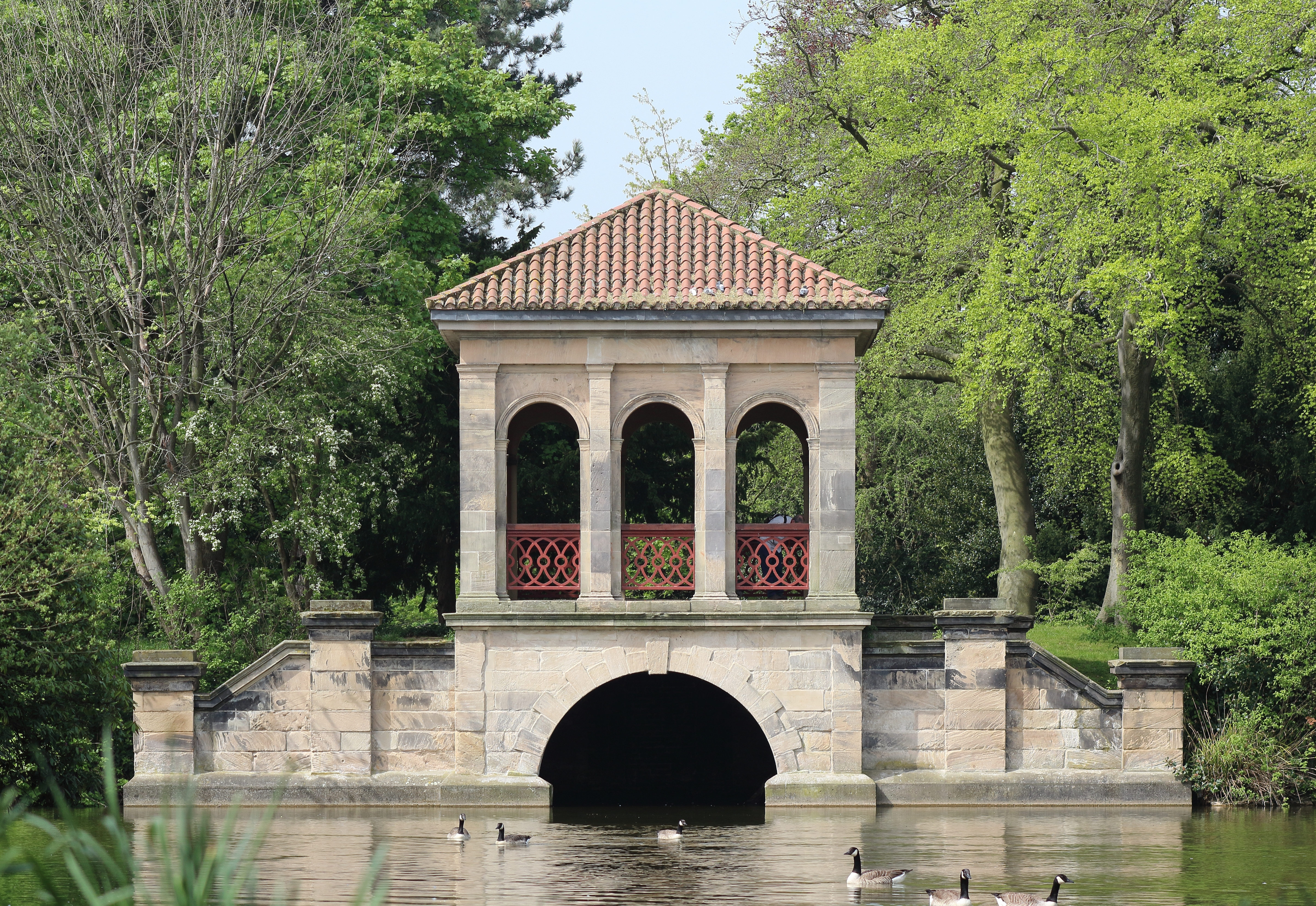 Grade II listed pavilion, intended as a bandstand, and boathouse in Birkenhead Park. View across the lake.